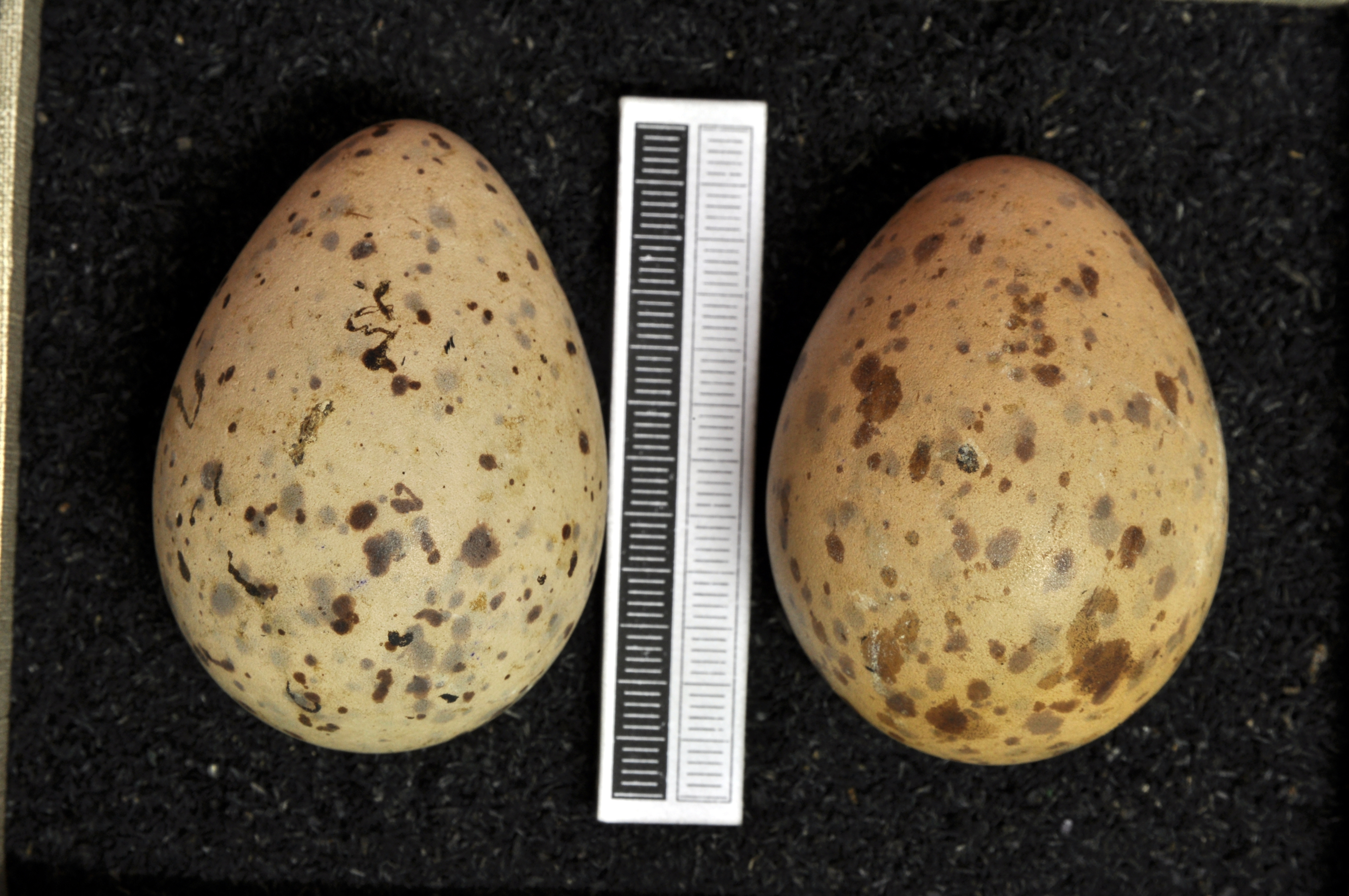 Black-legged kittiwake Rissa tridactyla , egg, Coll. Museum Wiesbaden